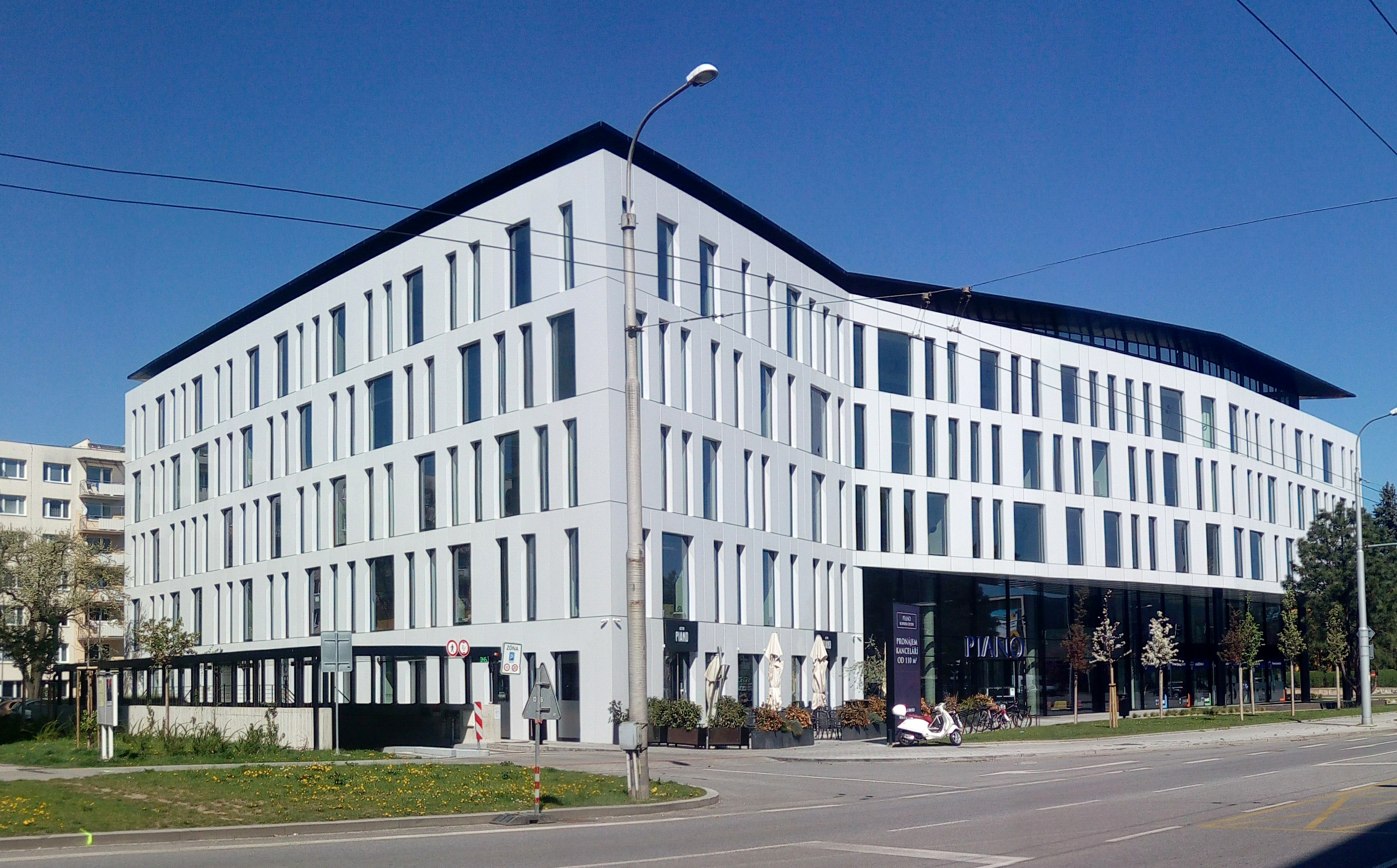 Business centre Piano built in 2018 in the city of České Budějovice, South Bohemian Region, Czech Republic